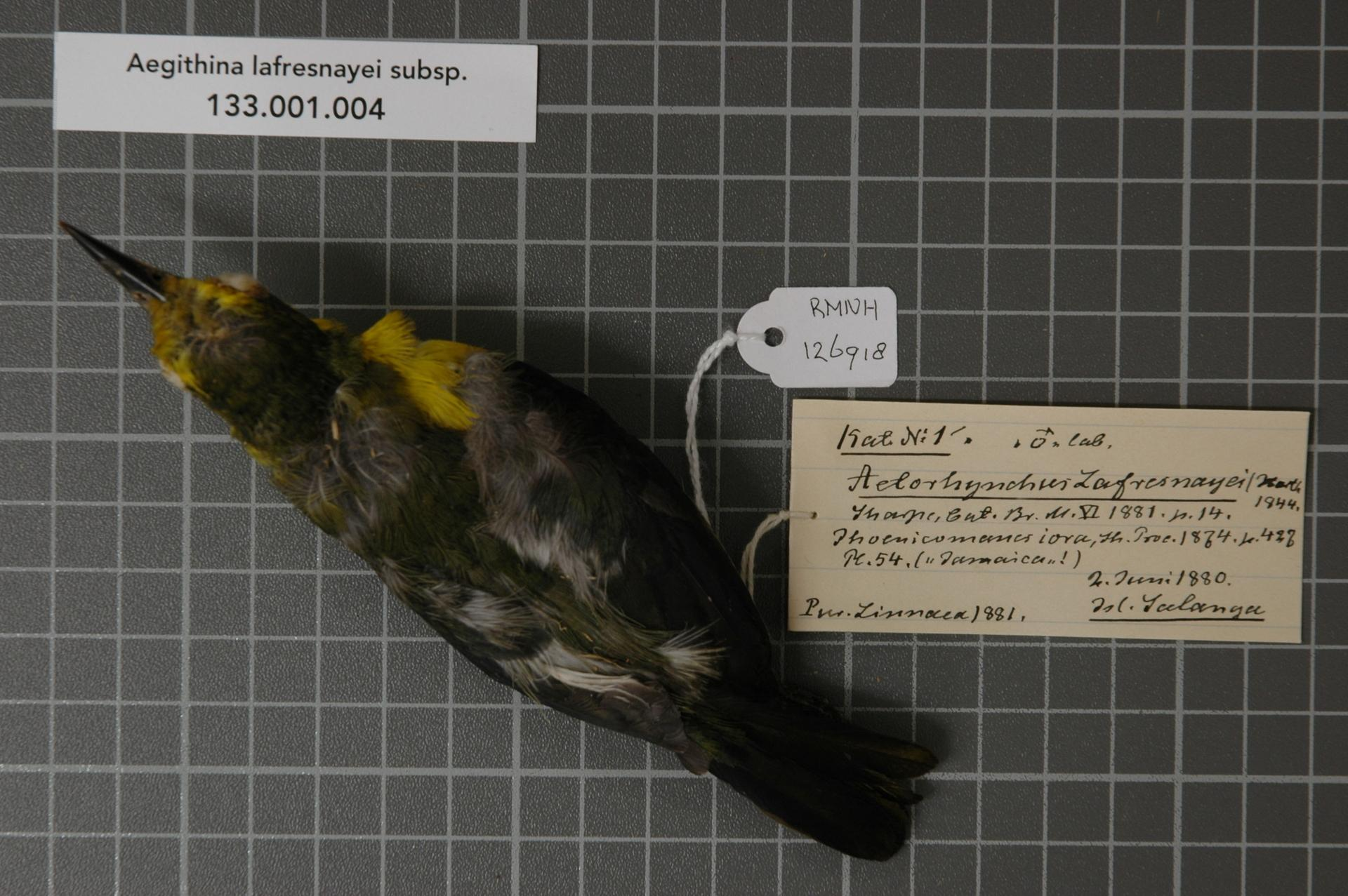 Aegithina lafresnayei subsp.